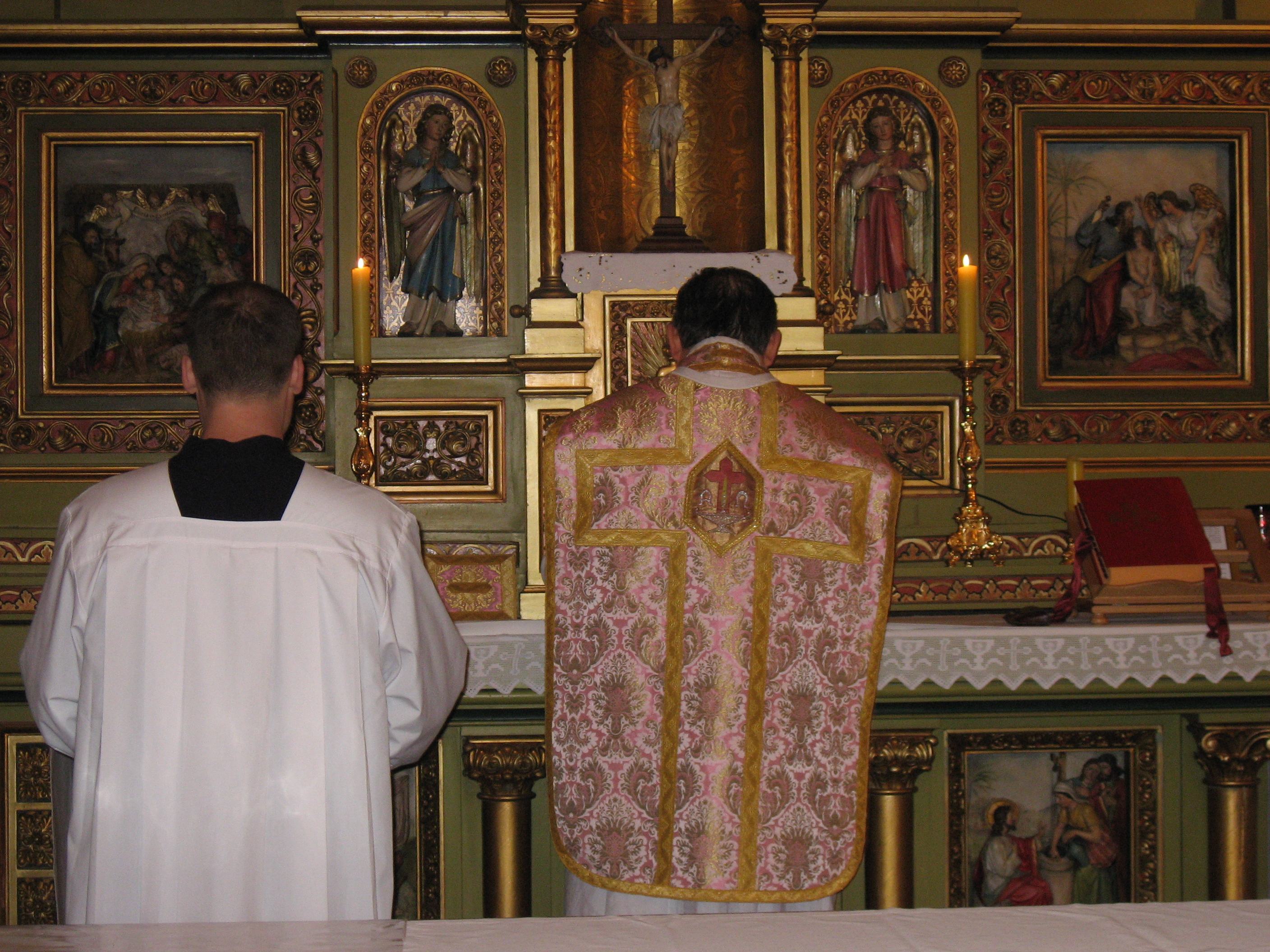 Rose vestment